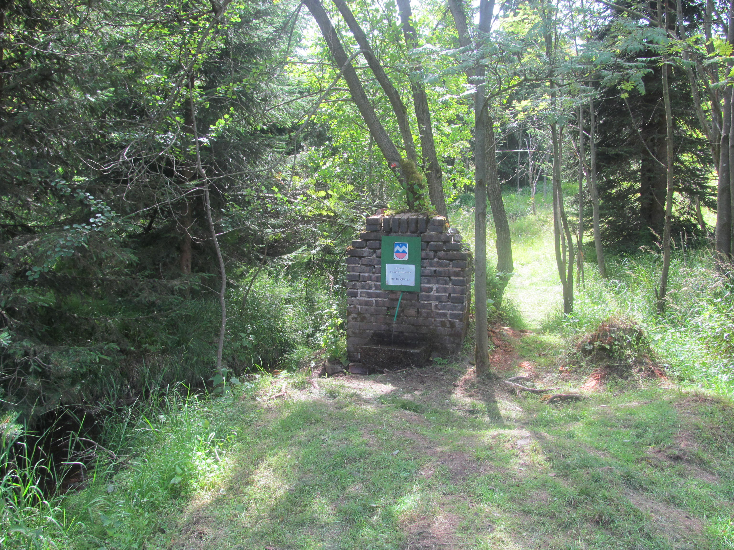 The spring of Moldavský potok